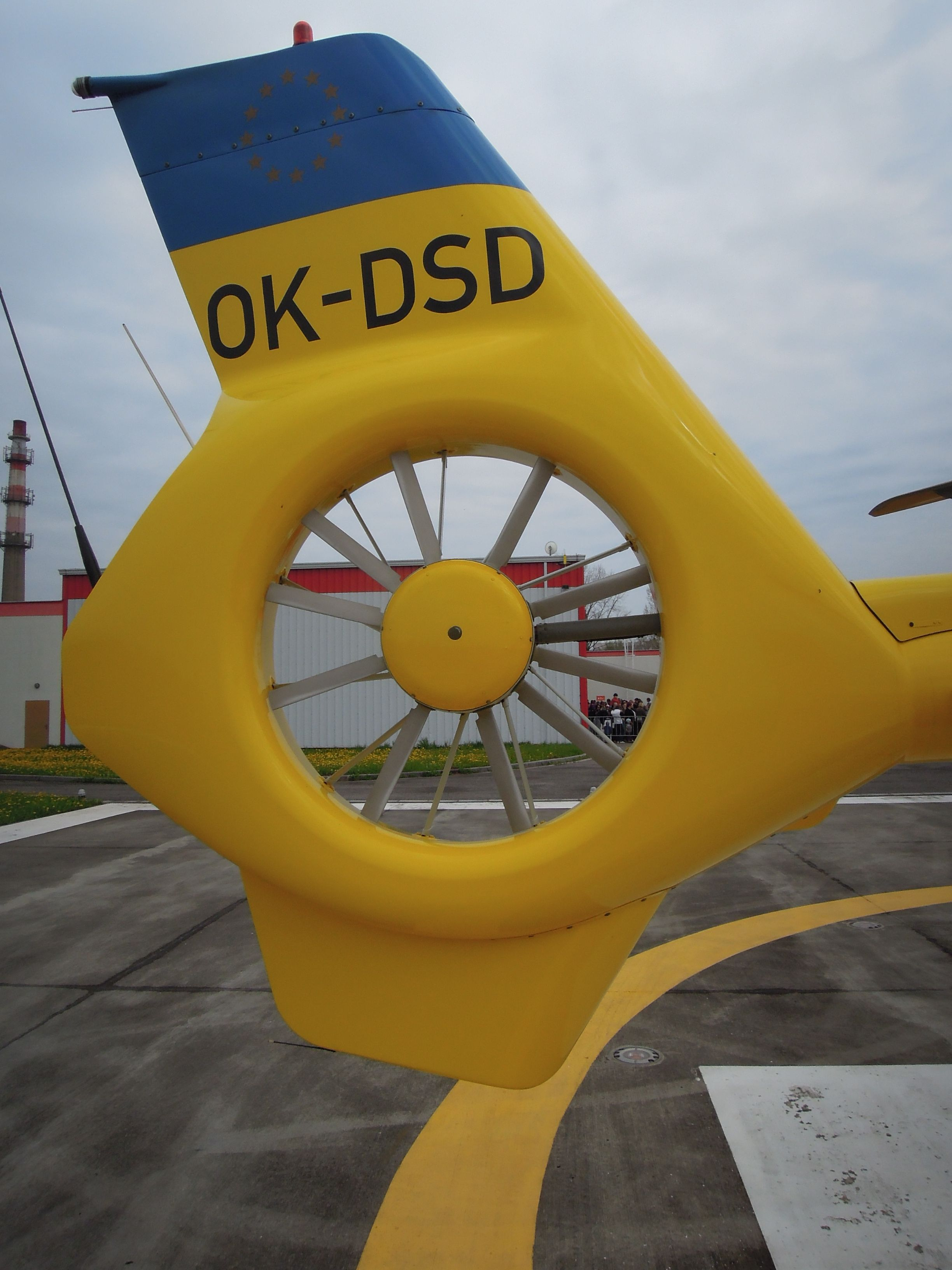 Fenestron of Eurocopter EC135T2 rescue helicopter of DSA company, Czech Republic